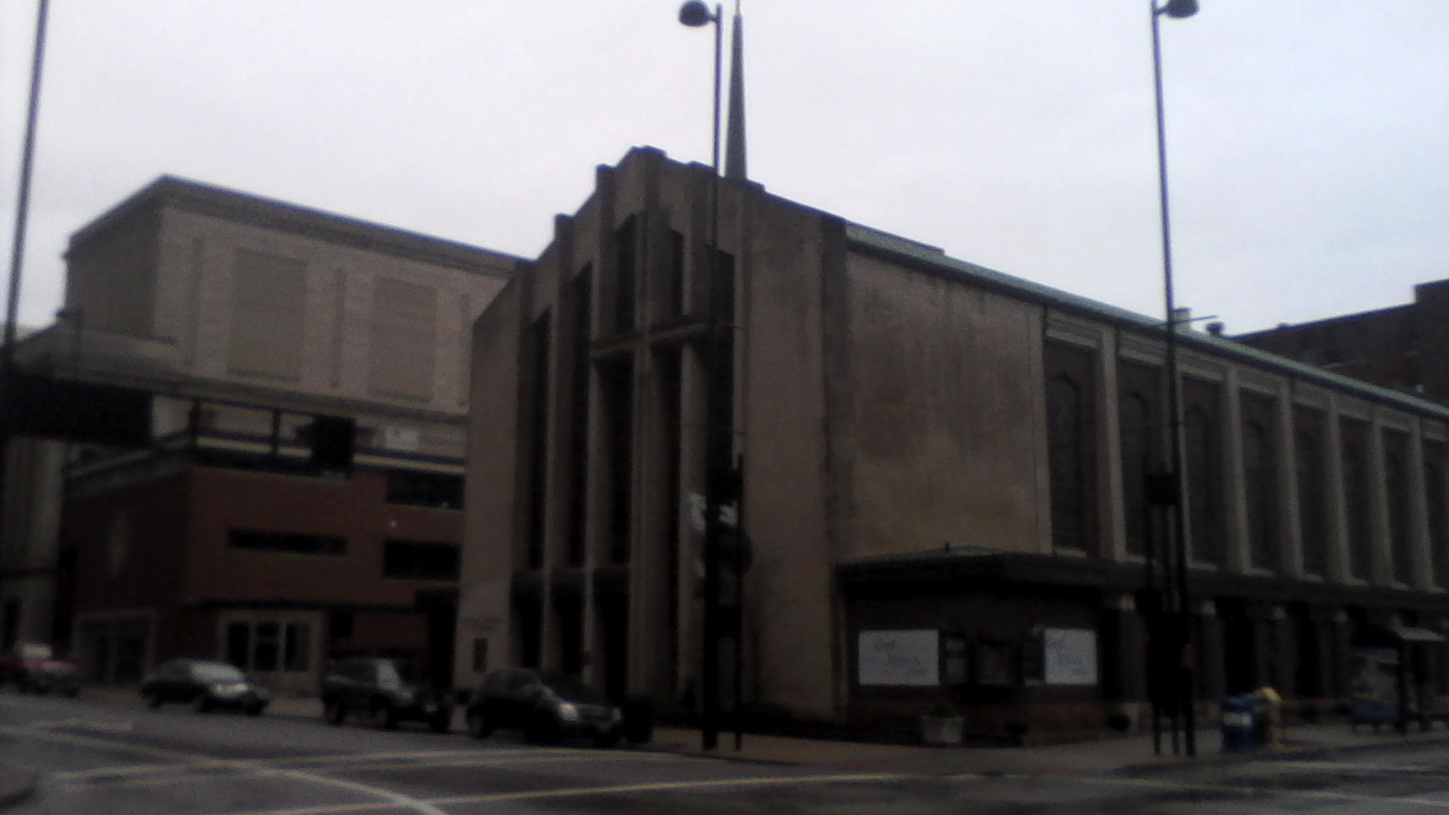 view from sycamore street Other information before scheduled 2016 renovation